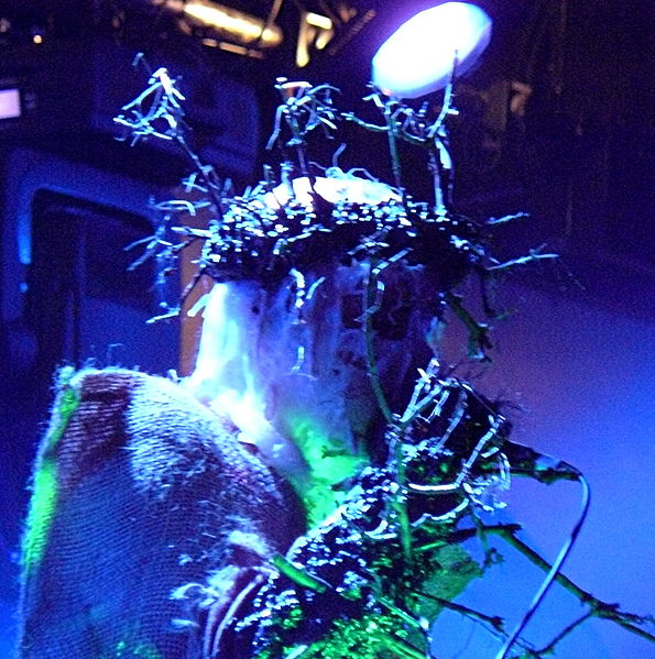 This is Attila Csihar dressed as a zombie tree monster, singing in the band Sunn0))) playing at Butlins in Minehead at the ATP festival 9 December 2007